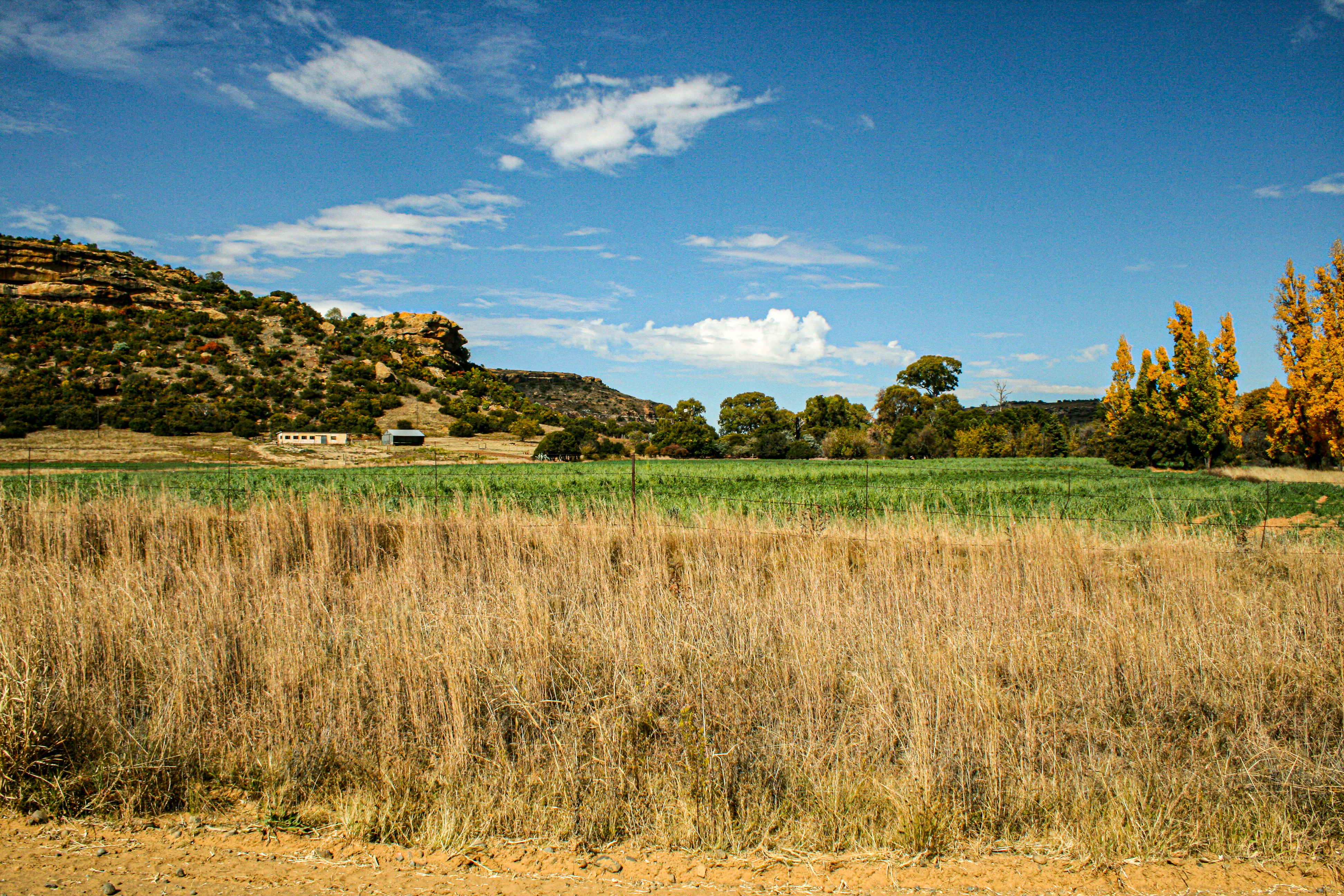 This is an image with the theme "Africa on the Move or Transport" from: South Africa